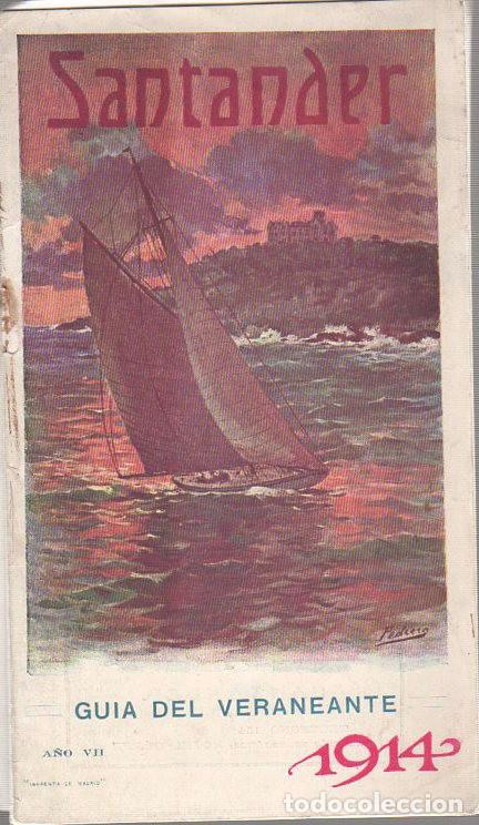 Guía del veraneante Santander 1914, 11 x 20 cm, cover by Mariano Pedrero, source web todocolección